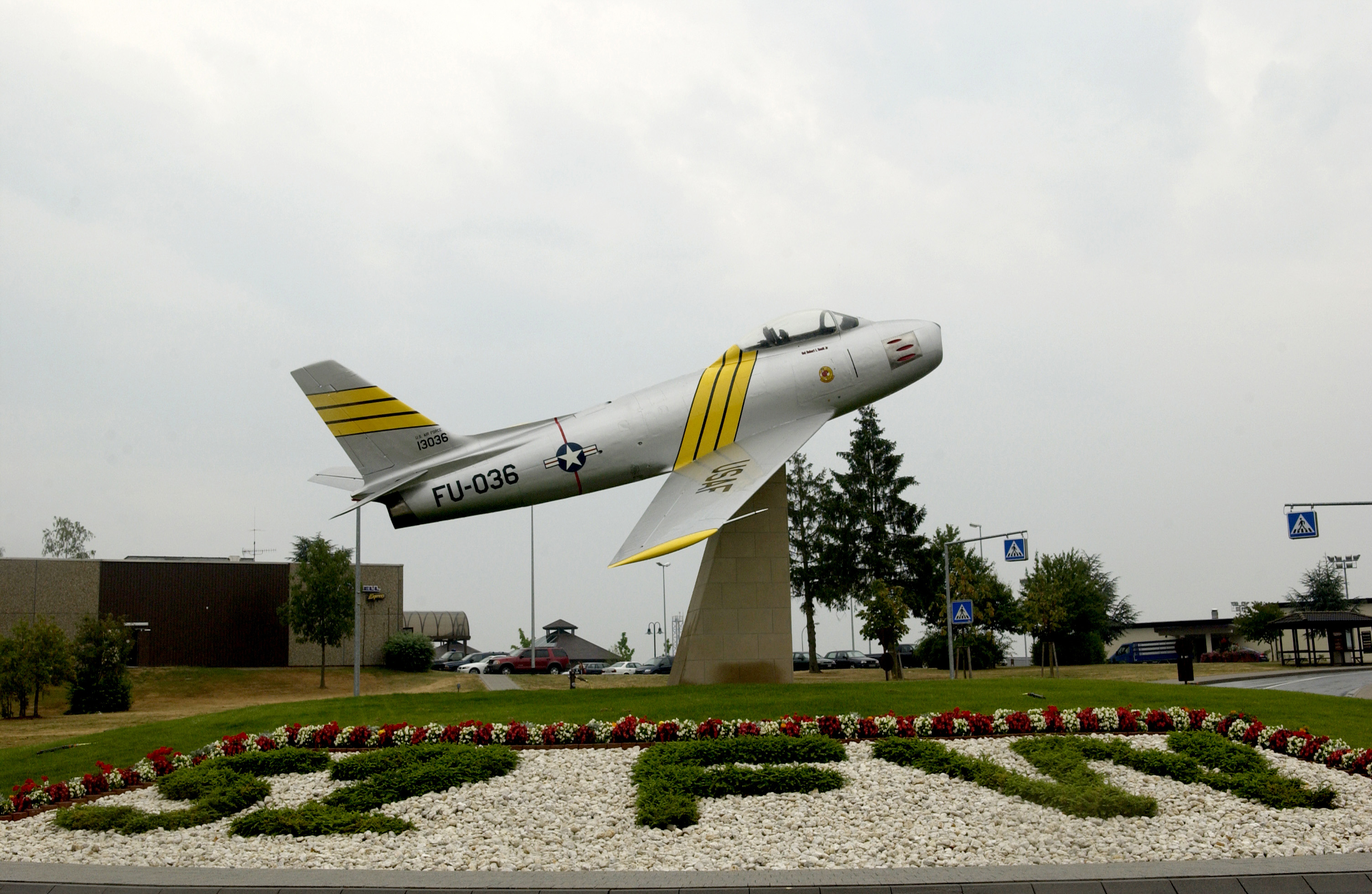 A North American F-86E-15-NA Sabre (s/n 51-13036) aircraft is displayed at the front entrance of Spangdahlem Air Base, Germany, 28 July 2006. The aircraft was moved from Bitburg Annex, refurbished by base volunteers and displayed at Spangdahlem's traffic circle.